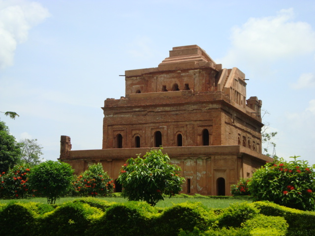 It is situated at Garhgaon (Gargaon) which is around 15 kms away from Sivasagar Town. Kareng Ghar is the remains of royal palace of Ahom kings when Garhgaon was their kingdom's capital. The chronicle sources refer that Suklengmung, the 15th Ahom king established the capital at Garhgoan and constructed a palace with wood and other impermanent material in the year 1540 AD. Later, king Pramatta Singha constructed a brick wall and masonry gateway in the capital complex. The present multistoried edifice was built by king Rajeswar Singha in 1752 AD.